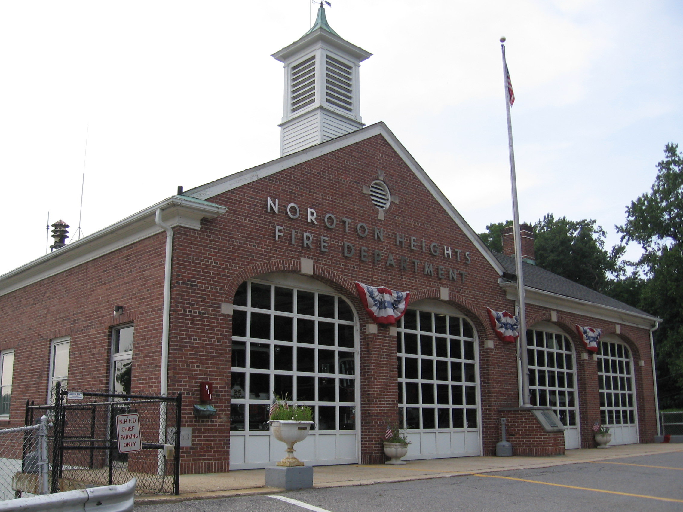 Noroton Heights Fire Department, Heights Road, Darien, Connecticut